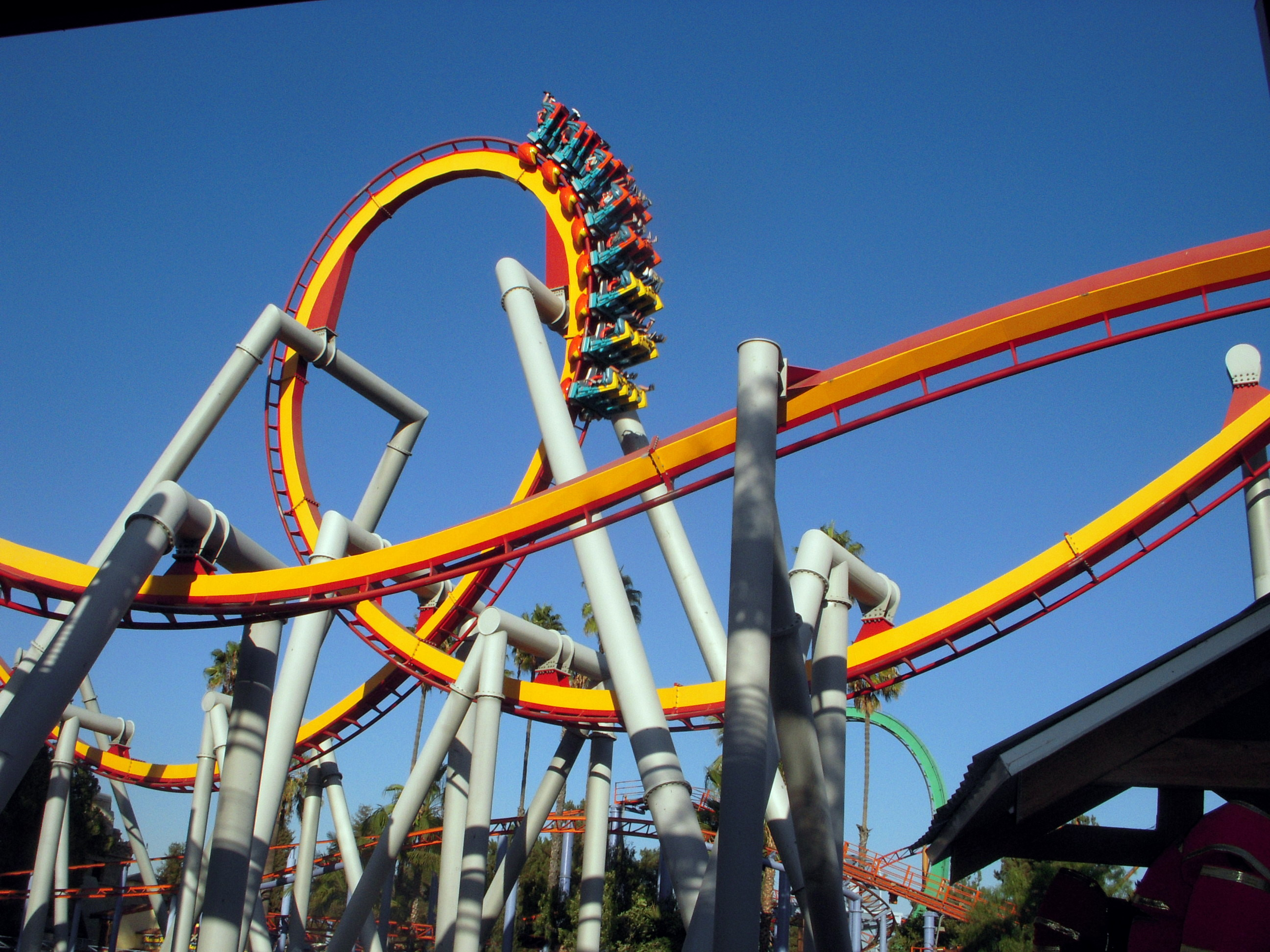 The Silver Bullet Coaster at Knotts Berry Farm going through a loop and people going upside down